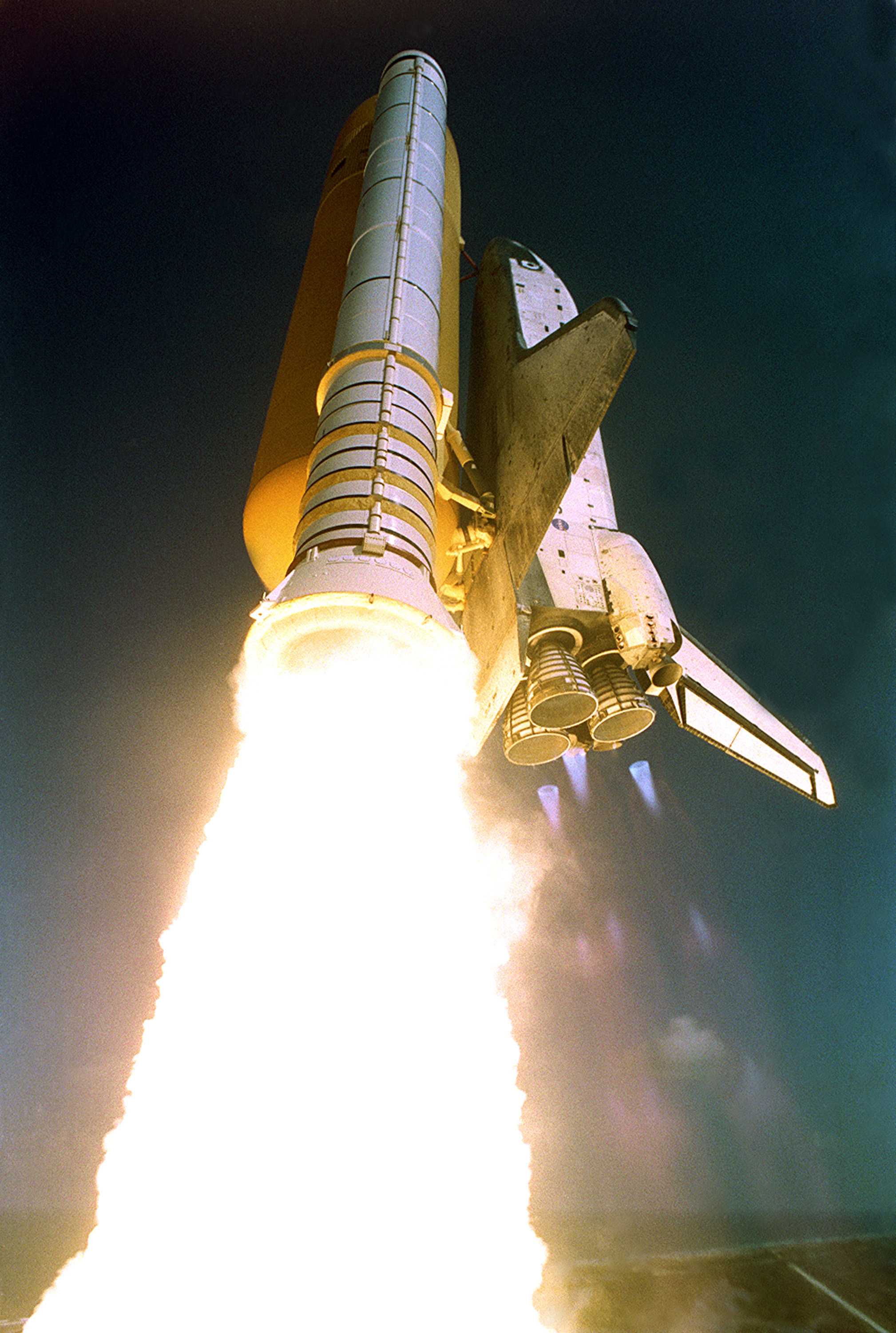 A tracking camera on Launch Pad 39B captures the flames of Space Shuttle Atlantis' three main engines as Atlantis hurtles into space on mission STS-112. The shoreline of the Atlantic Ocean is visible in the background. Liftoff occurred at 3:46 p.m. EDT. Atlantis carries the S1 Integrated Truss Structure and the Crew and Equipment Translation Aid (CETA) Cart A. The CETA is the first of two human-powered carts that will ride along the ISS railway, providing mobile work platforms for future spacewalking astronauts. On the 11-day mission, three spacewalks are planned to attach the S1 truss.